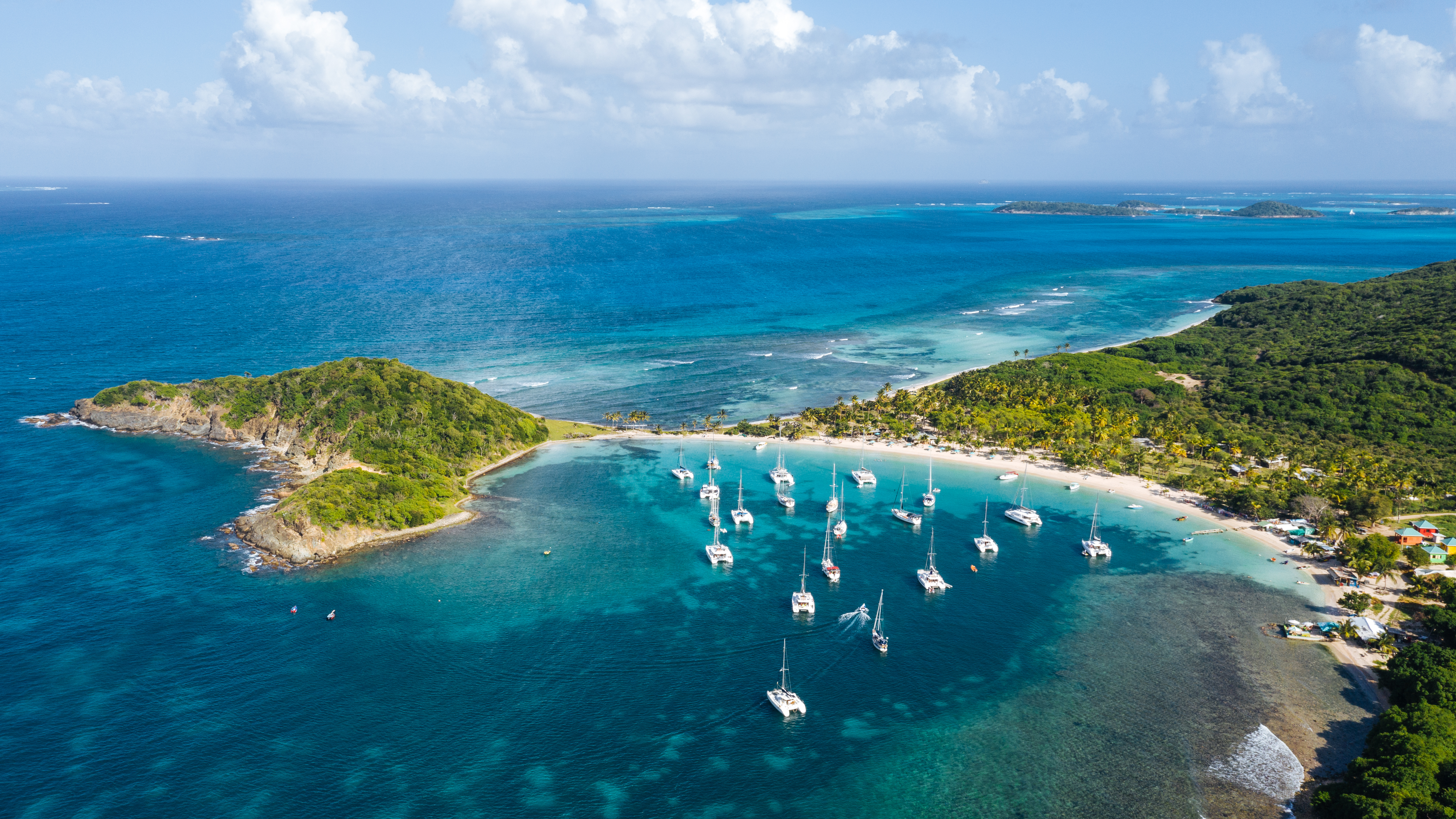 Aerial view of Salt Whilstle Bay on Mayreau